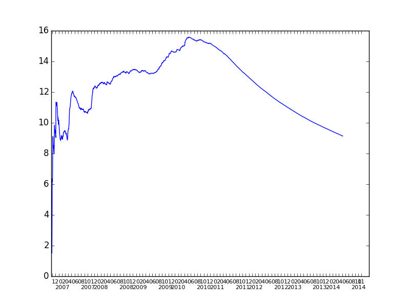 Graph showing the creation rate (articles per day)